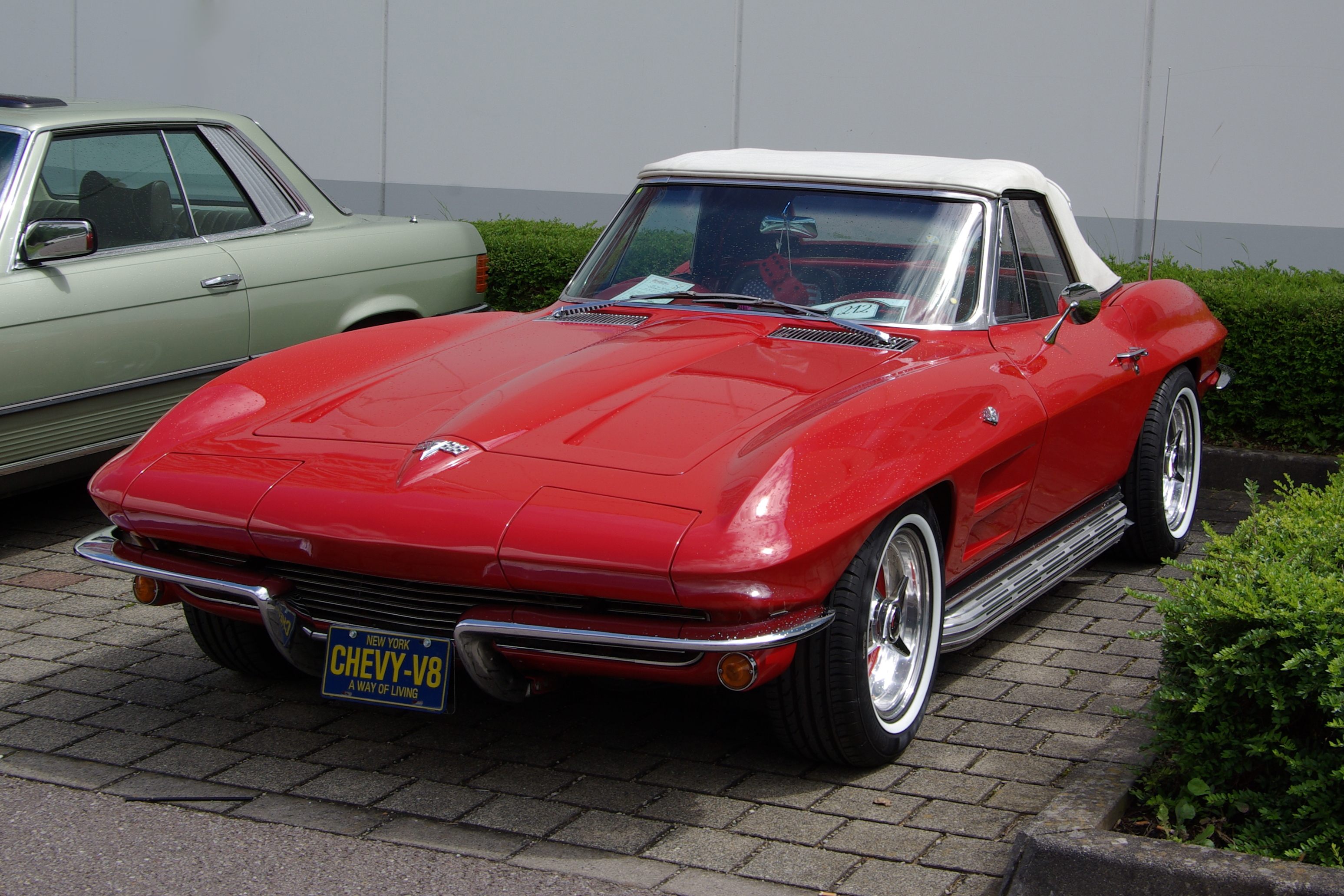 Chevrolet Corvette C2 Sting Ray, Baujahr 1964, 250 PS, 28. Internationales Oldtimer-Treffen, Konz